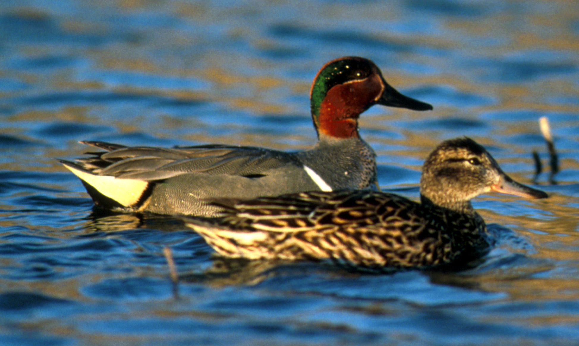 Green-winged Teal Anas carolinensis, mated pair.